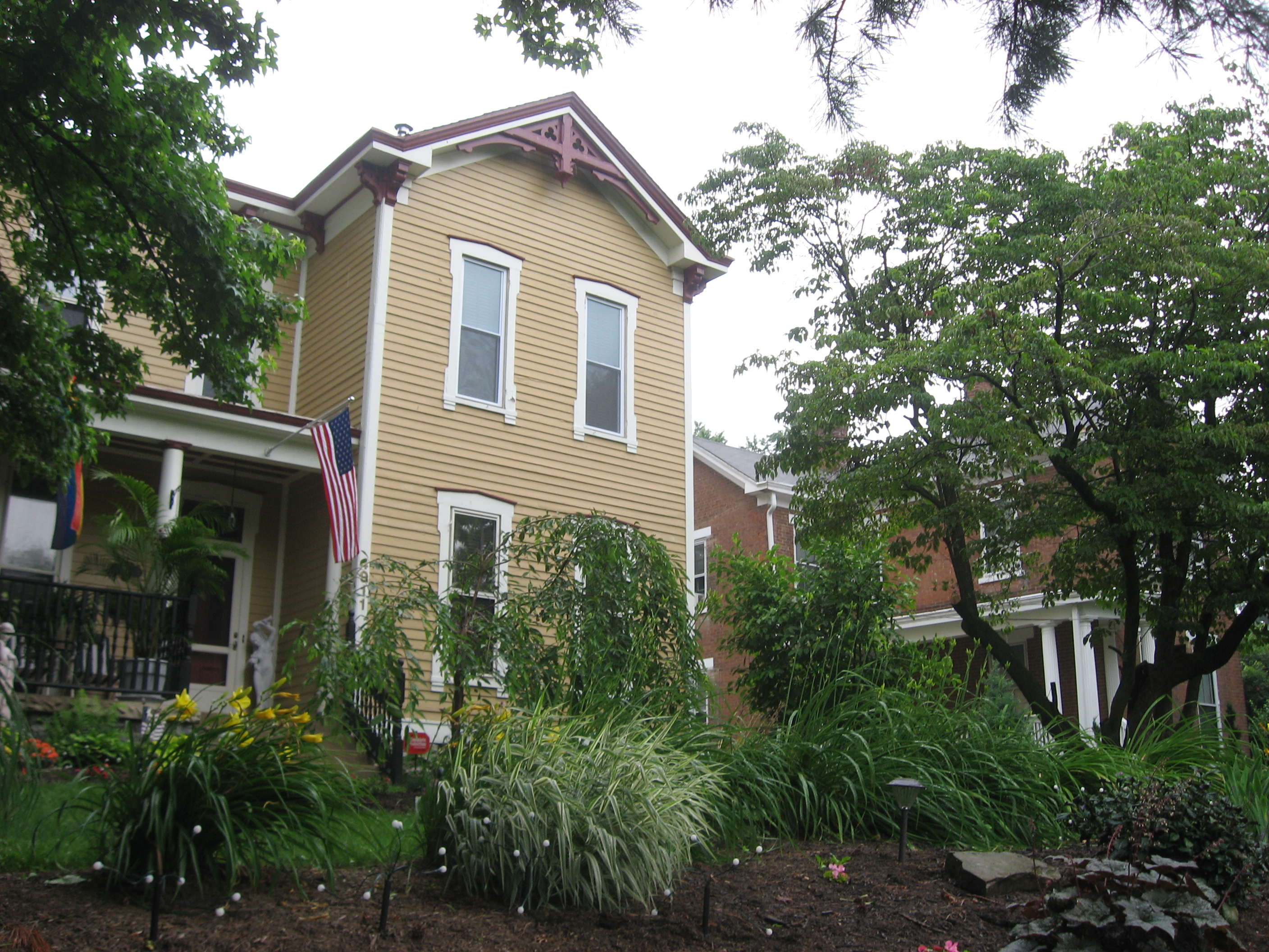 Houses on the western side of the 4900 block of Stewart Avenue in Cincinnati, Ohio, United States. This block is part of the Madison-Stewart Historic District, a historic district that is listed on the National Register of Historic Places.